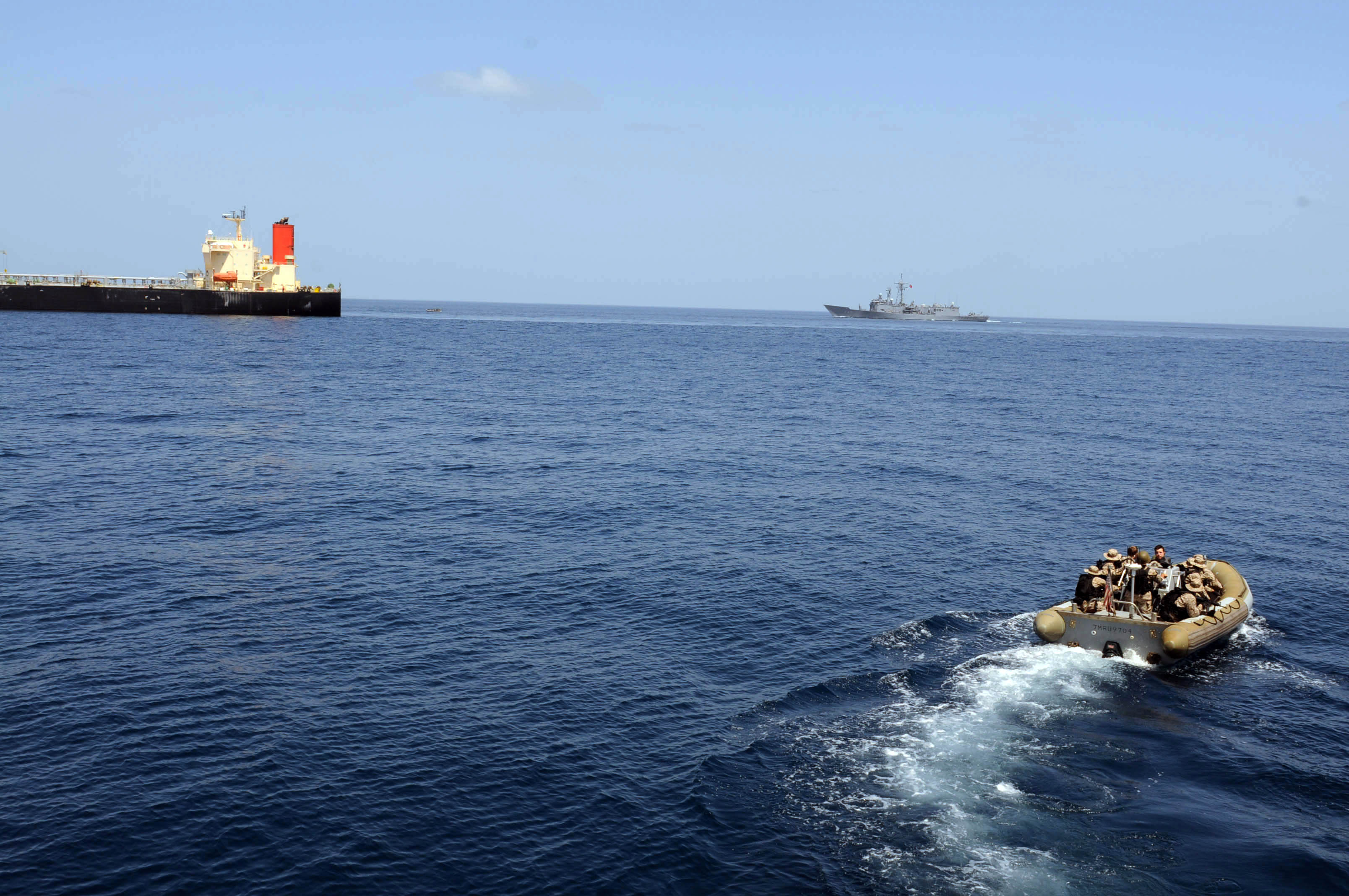 ARABIAN SEA (March 6, 2011) A rigid-hull inflatable boat from the guided-missile destroyer USS Bulkeley (DDG 84) approaches the Japanese-owned commercial oil tanker M/V Guanabara. The Turkish navy frigate TCG Giresun (F 491), assigned to NATO counter-piracy Task Force 508, is in the background. Bulkeley responded to the reported pirating of Guanabara and detained four suspected pirates. Guanabara had 24 crew members aboard. (U.S. Navy photo by Mass Communication Specialist Seaman Anna Wade/Released)